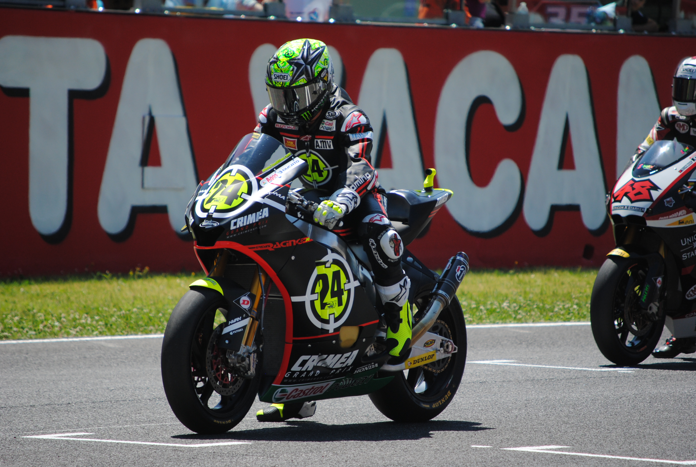 Toni Elías at the 2010 Italian motorcycle Grand Prix